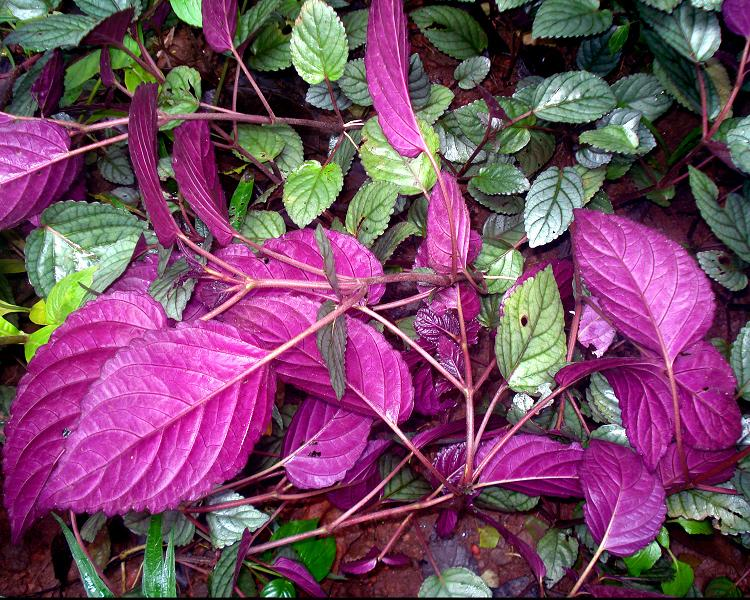 Name: Hemigraphis colorata Family : Acanthaceae Commonly available decorative plant. This is a prostrate herb with rooting branches. leaves 6 to 10 cm long and sparkling silvery violet underneath red purple. Sometime produce single white small flowers An unbelievable wound healer. It cures fresh wound, cuts, ulcers, inflammation, it is used internally for anemia.